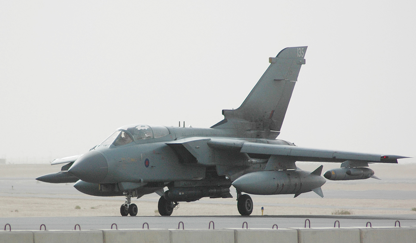 A Panavia Tornado GR.4 aircraft of No. 617 Squadron, Royal Air Force, returns from a mission at a forward-deployed location, probably Al Udeid air base, Qatar, on 5 July 2007.